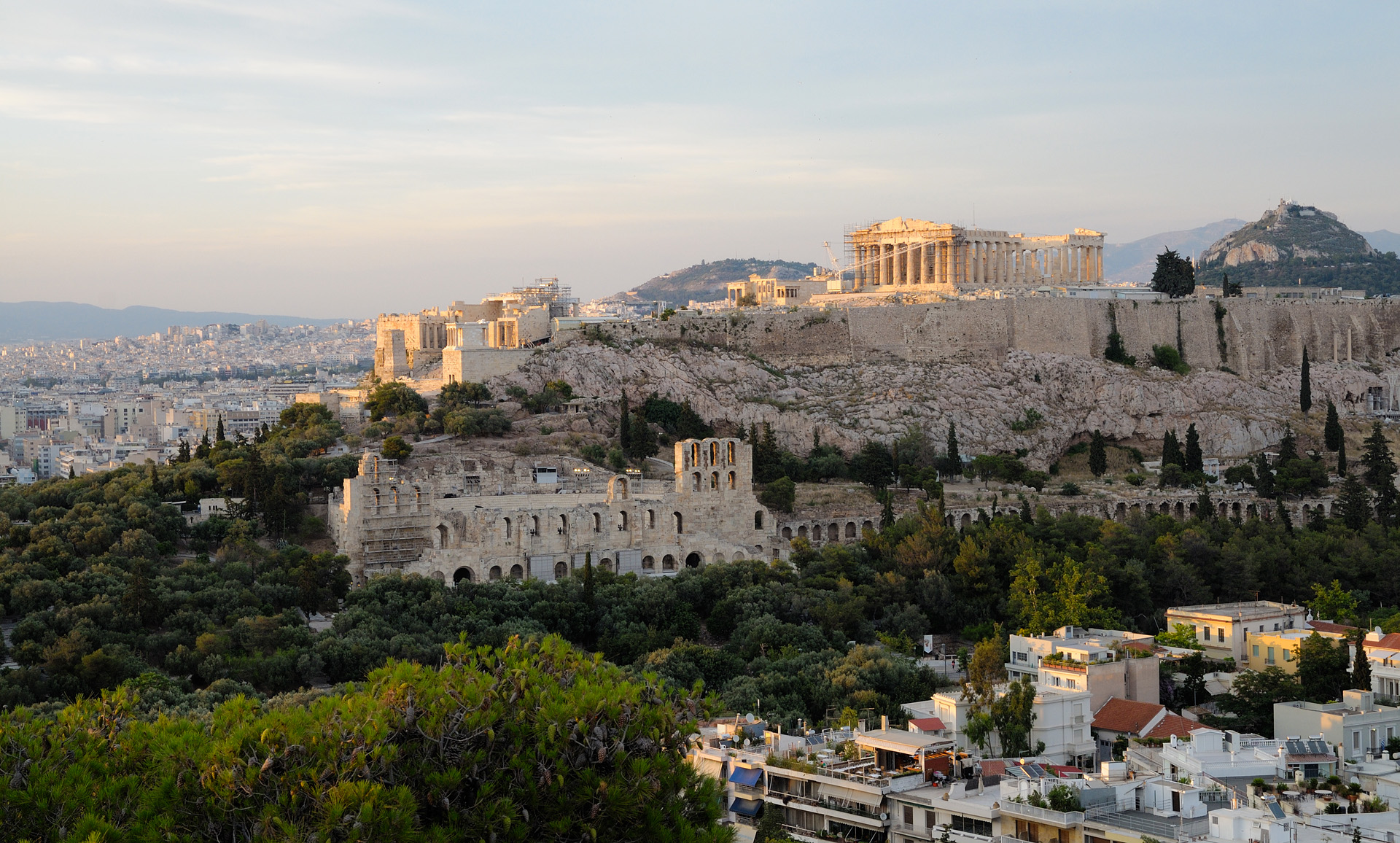 The Acropolis as viewed from the Mouseion Hill.